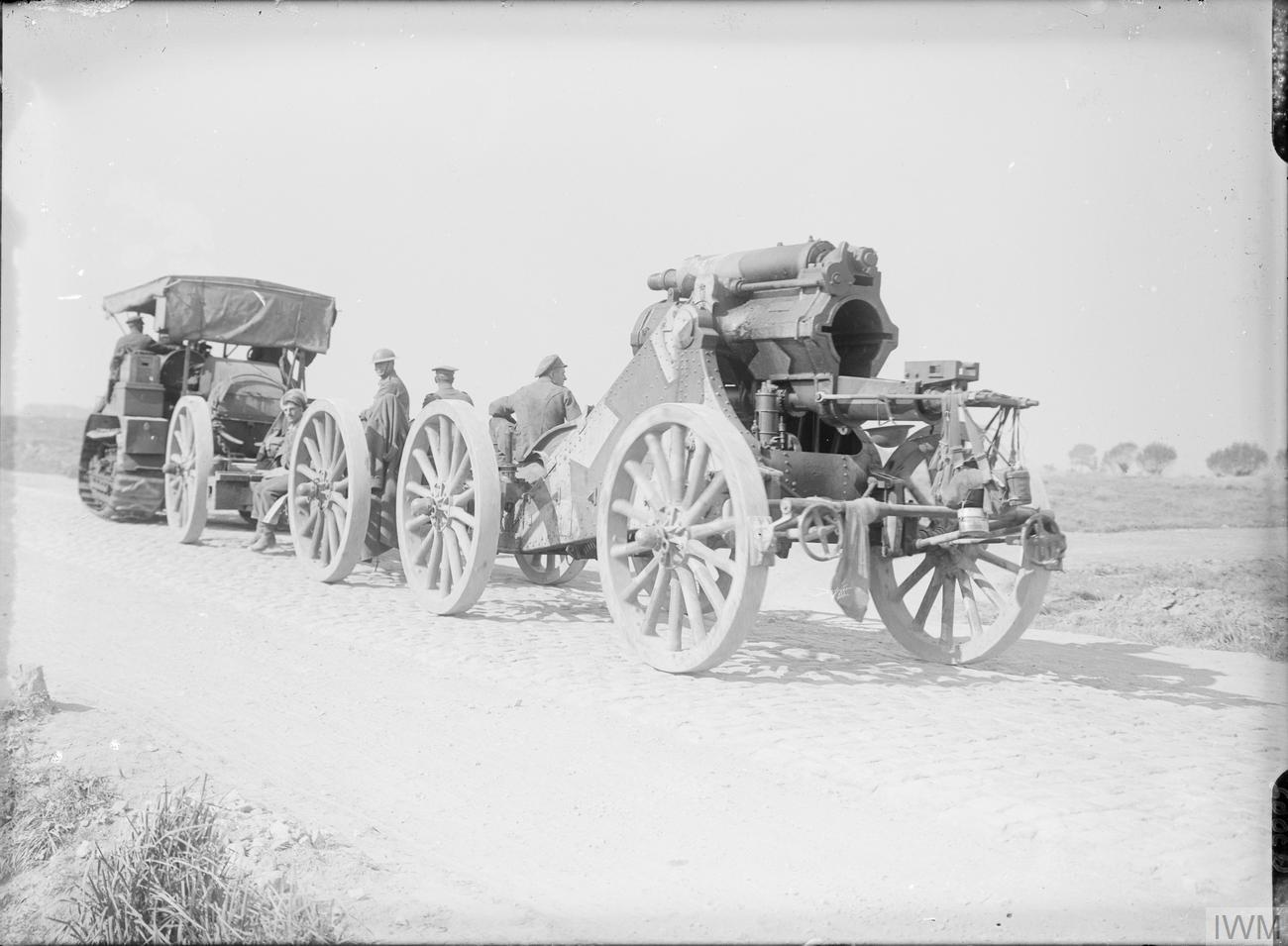 IWM caption : THE BATTLE OF PASSCHENDAELE, JULY-NOVEMBER 1917. Battle of Polygon Wood. A 9.2-inch howitzer of the Royal Garrison Artillery on its travelling carriages being drawn by motor tractor along a road near Ypres, 27th September 1917.